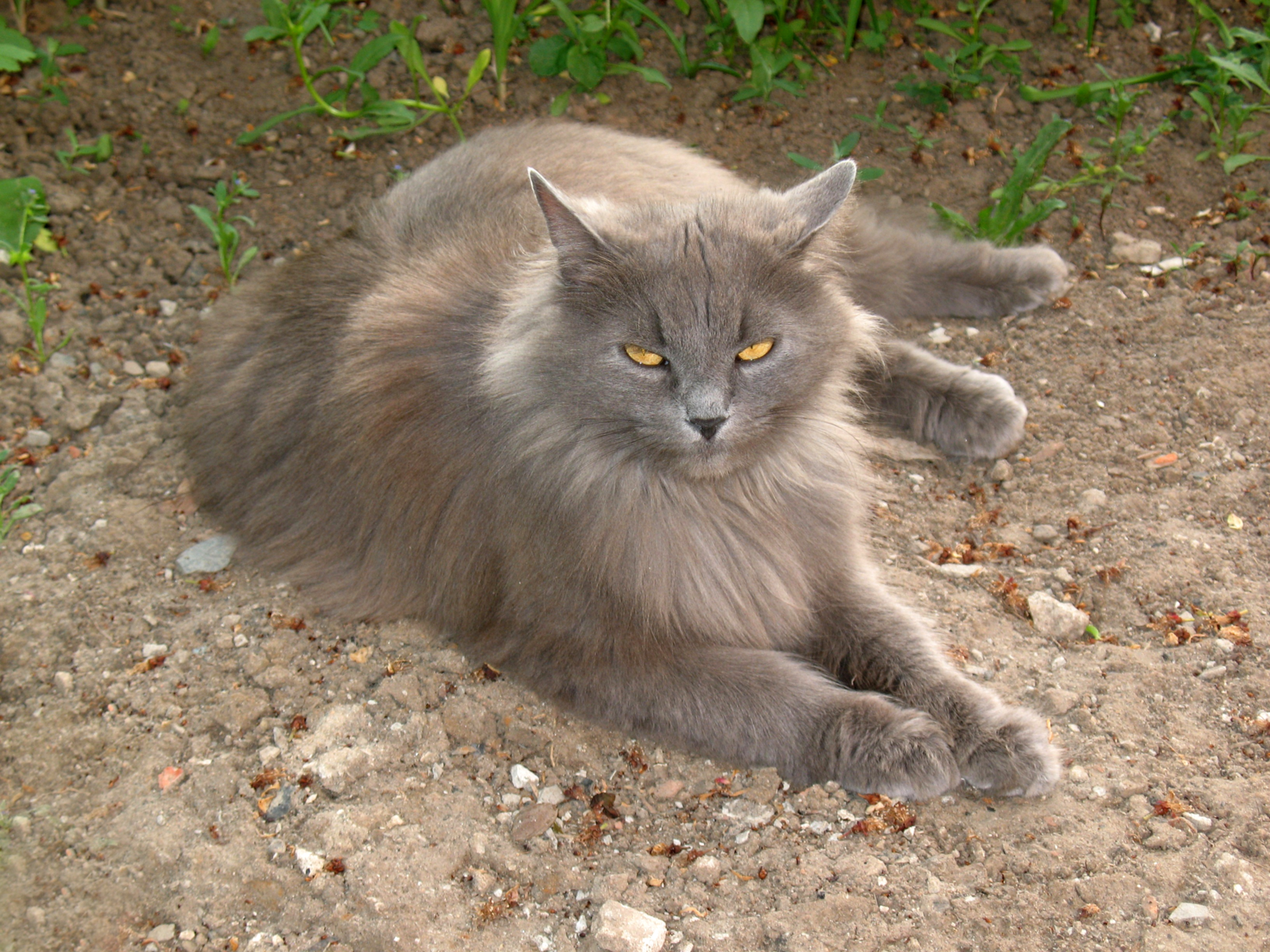 Solid blue (grey) Siberian male cat. Kharkov City, Ukraine. 10 May.